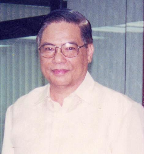 NTC Commissioner Eliseo M. Rio, Jr.